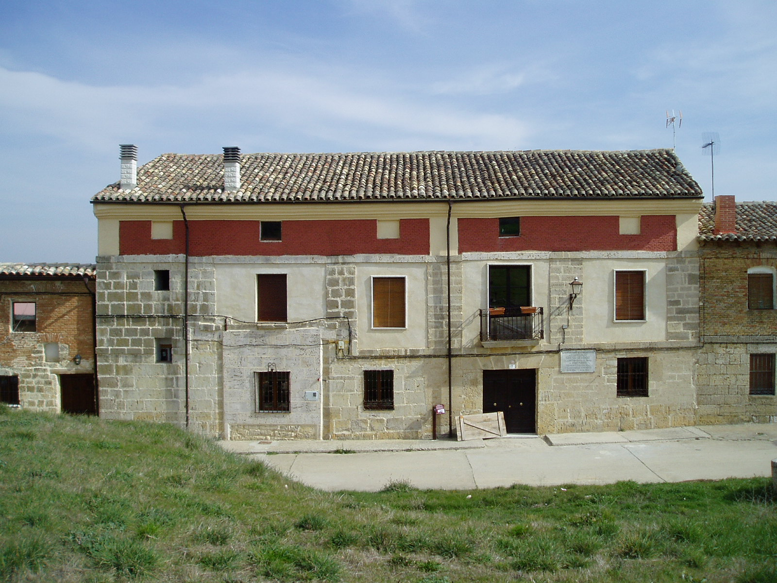 Chico family's house, where Sinesio Delgado was born, in Támara de Campos, Palencia.